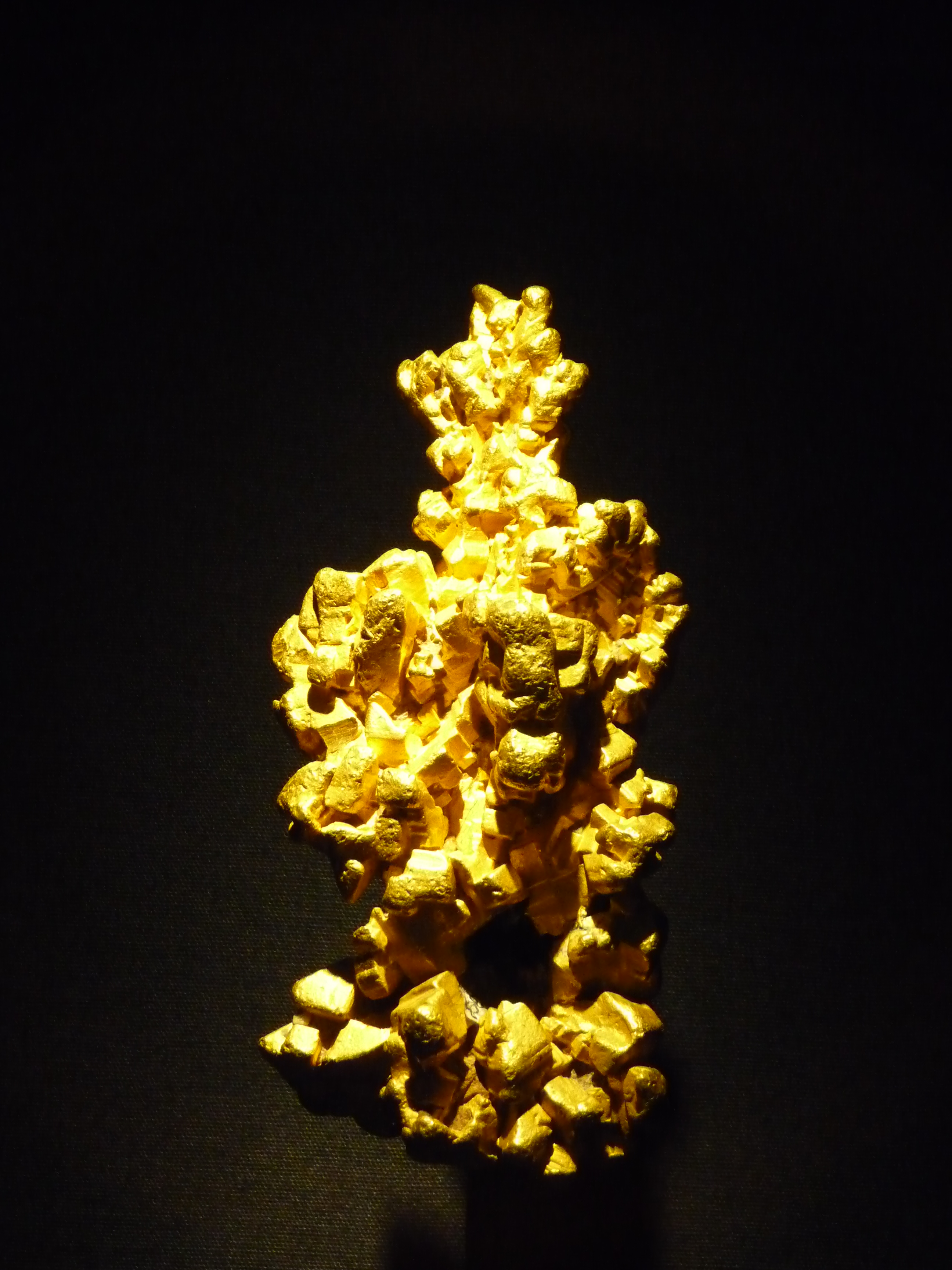 The Latrobe gold nugget. This gold nugget is exceptional because of its well developed cubic gold crystals. Its mass is 717 grams. On display in the Vault, Natural History Museum, London.